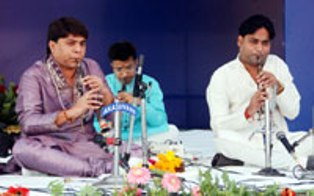 Lokesh Anand performing at Tansen samaroh (Gwalior)